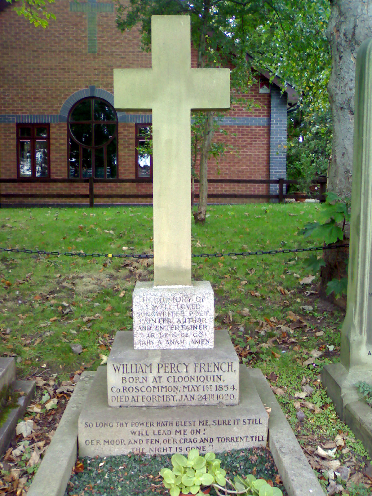 The grave of (William) Percy French in St Lukes Church, Formby, England. Photograph taken by Steven Coulton on Sunday 30th September 2007. The article it should be in is "Percy French"